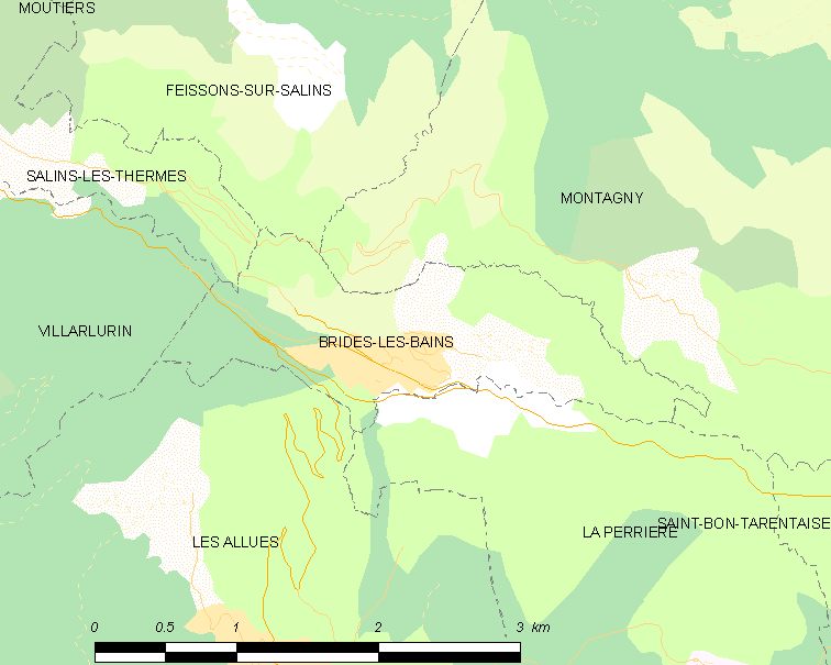 Map of French municipality